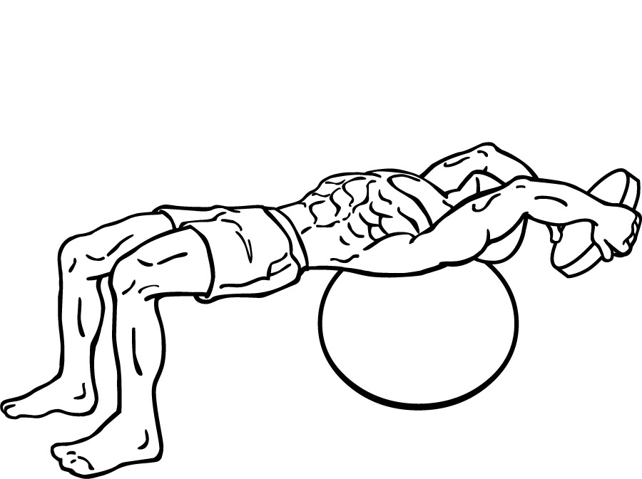 an exercise of upper back